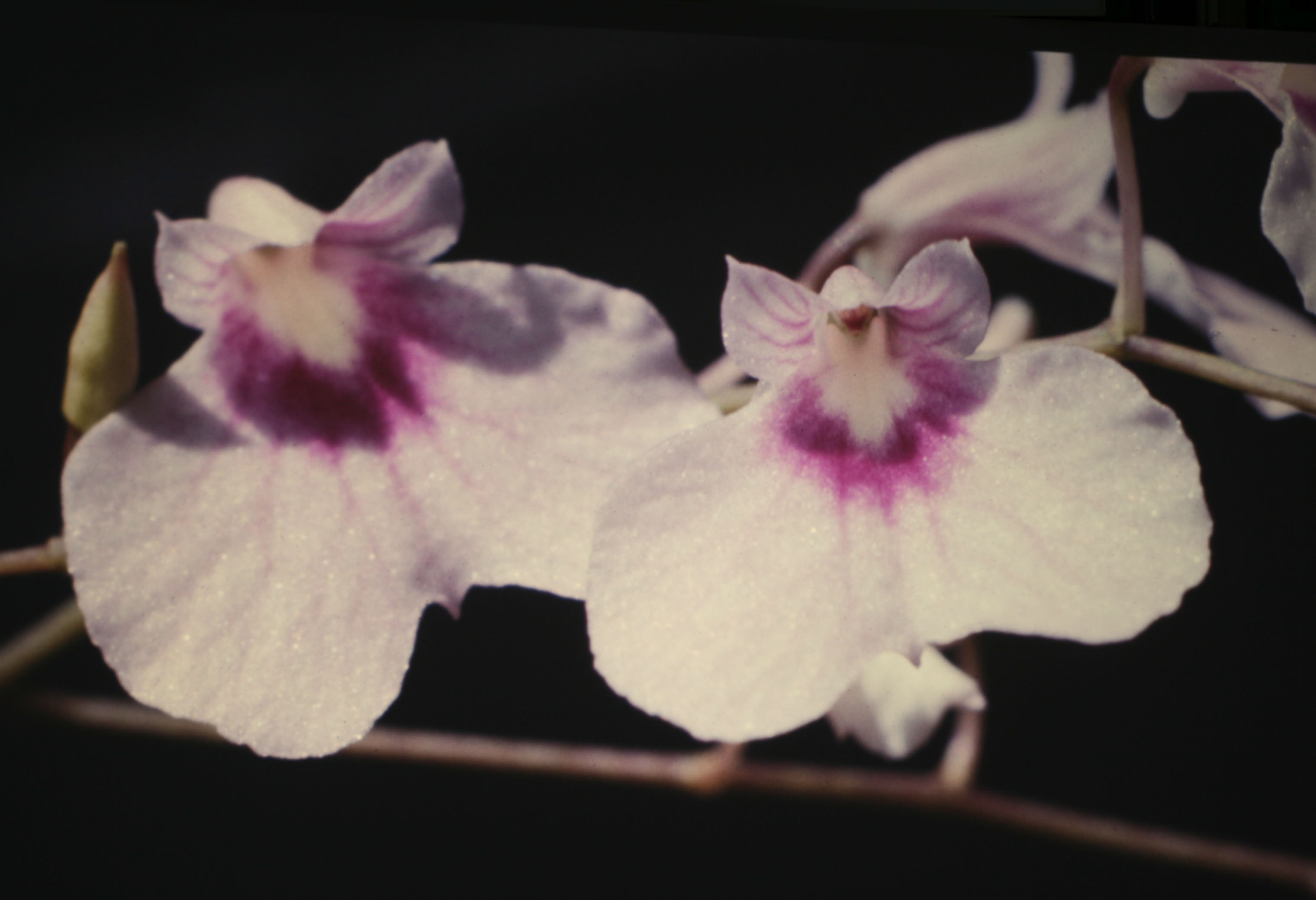 Flower of Ionopsis utricularioides. Found in Suriname, 1972-1982.